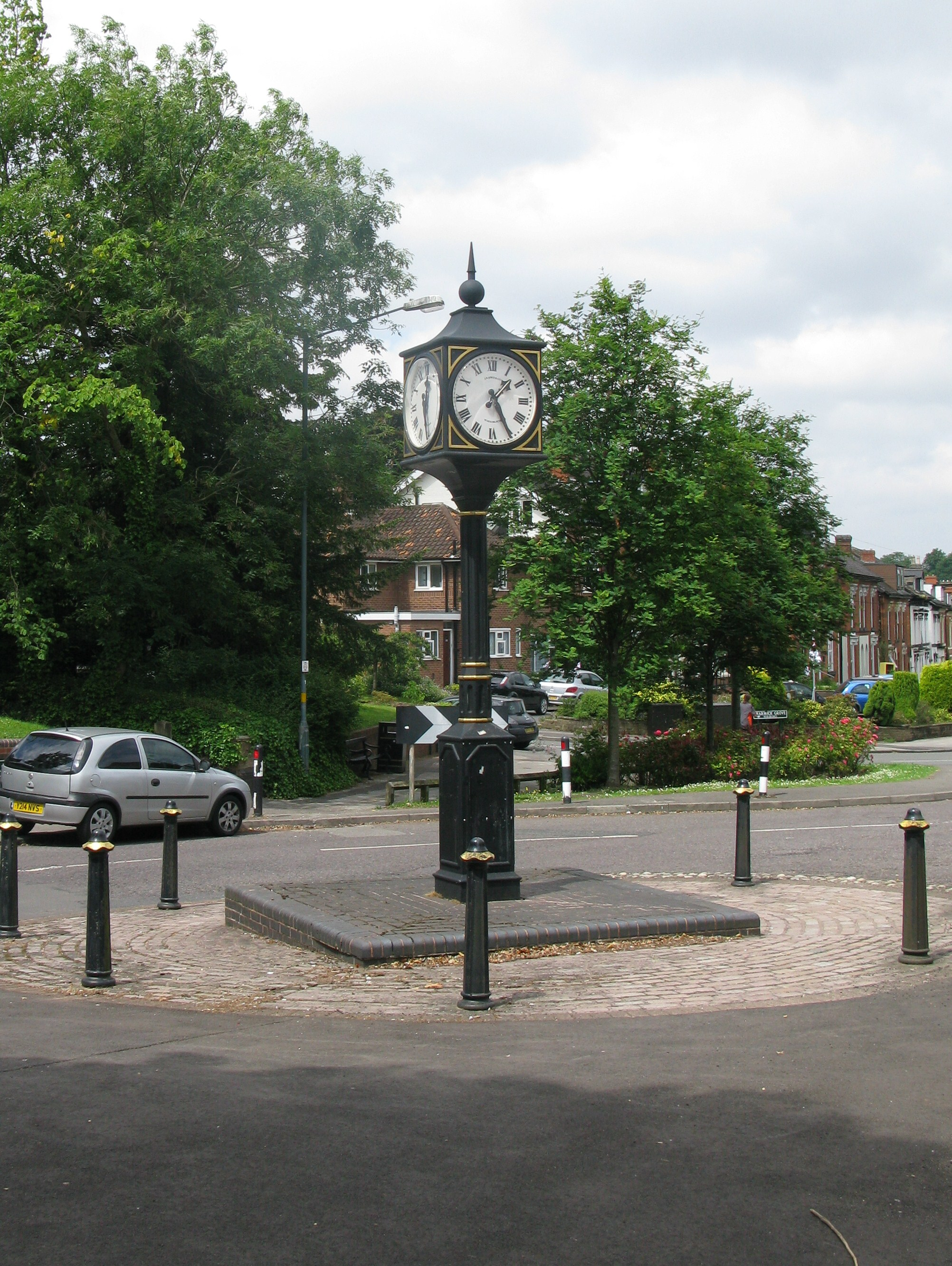 Grade II